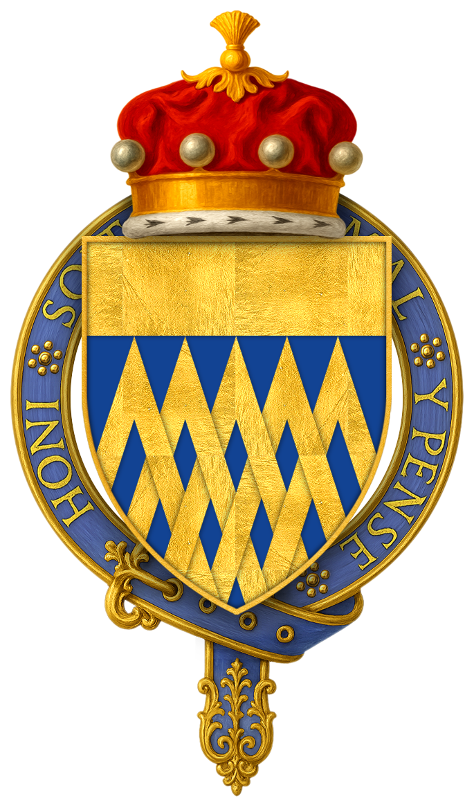 Coat of Arms of Sir Henry FitzHugh, 3rd Baron FitzHugh, KG HOPE, W. H. St. John, ‘’The Stall Plates of the Knights of the Order of the Garter 1348 – 1485: A Series of Ninety Full-Sized Coloured Facsimiles with Descriptive Notes and Historical Introductions,’’ Westminster: Archibald Constable and Company LTD, 1901. “ Sir Henry Fitzhugh, Lord Fitzhugh, K.G. 1408 -- 1424-5... arms, azure fretty and cheif gold. ” Stall plate remains intact within the tenth stall, on the North side of the quire. See also